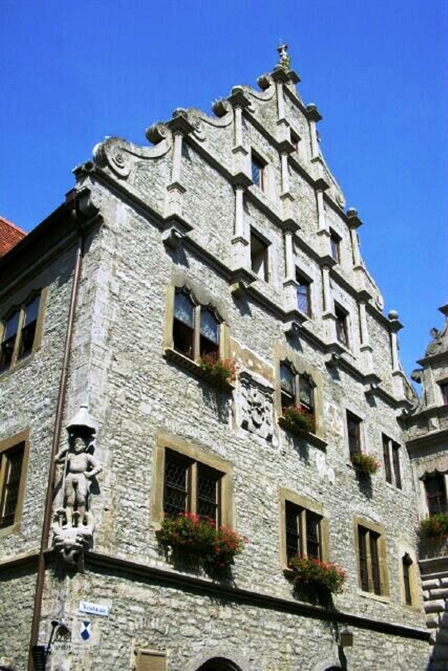 town hall of Marktbreit/Main